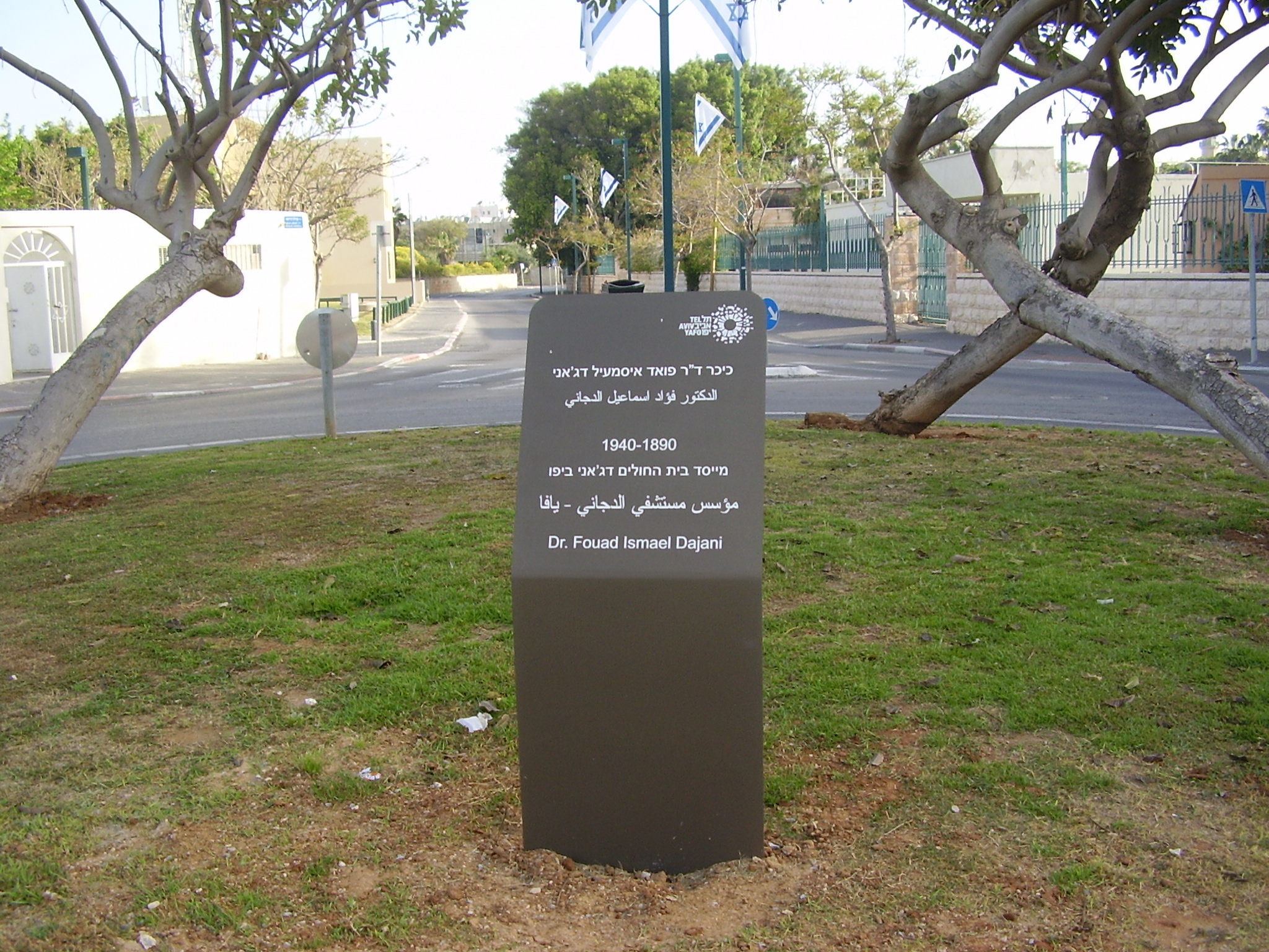 dr. dajani square in jaffa